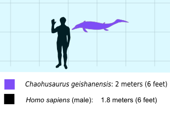 A comparison of the body sizes between an Chaohusaurus and an adult male human.